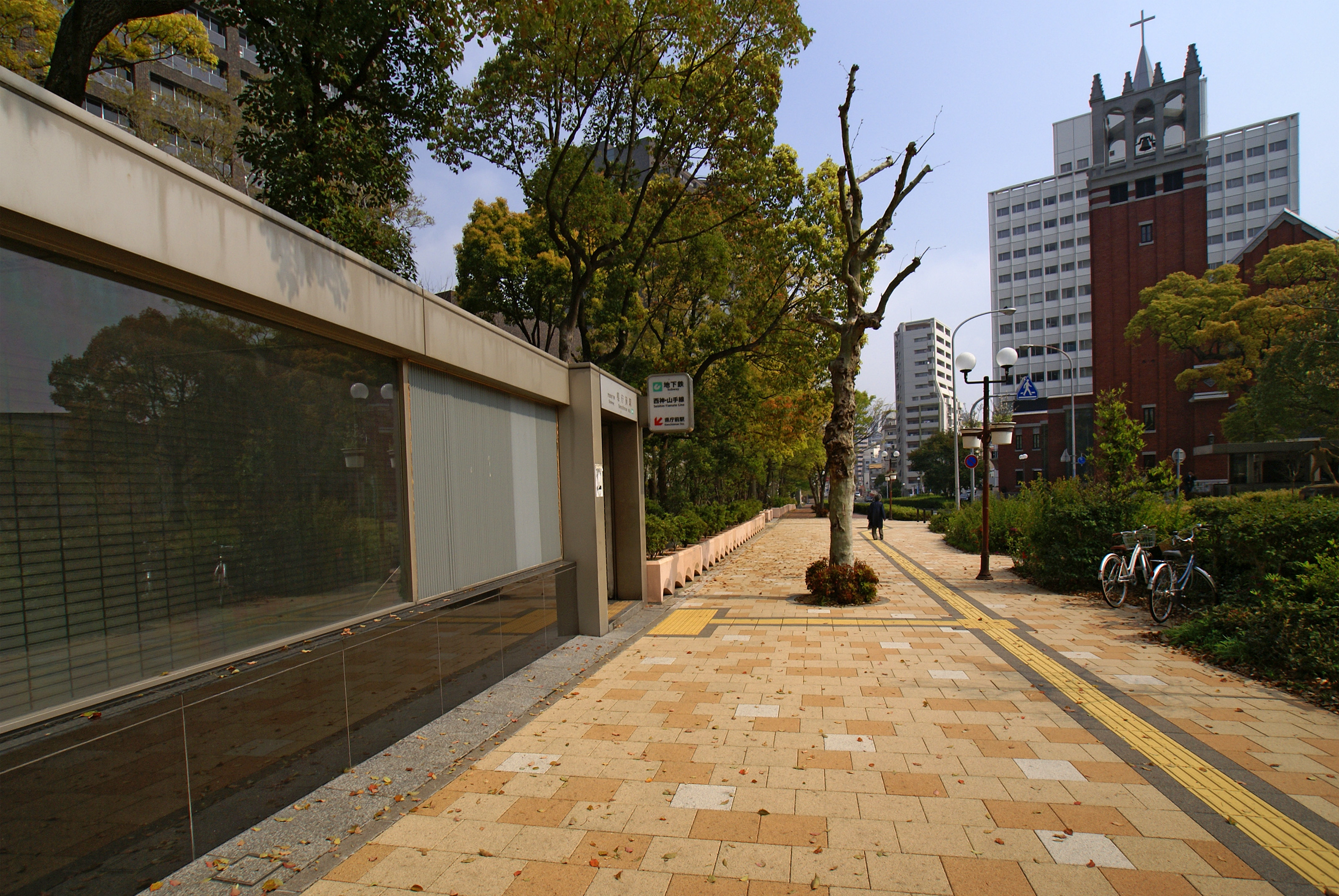 Kencho-mae Station in Kobe, Hyogo prefecture, Japan